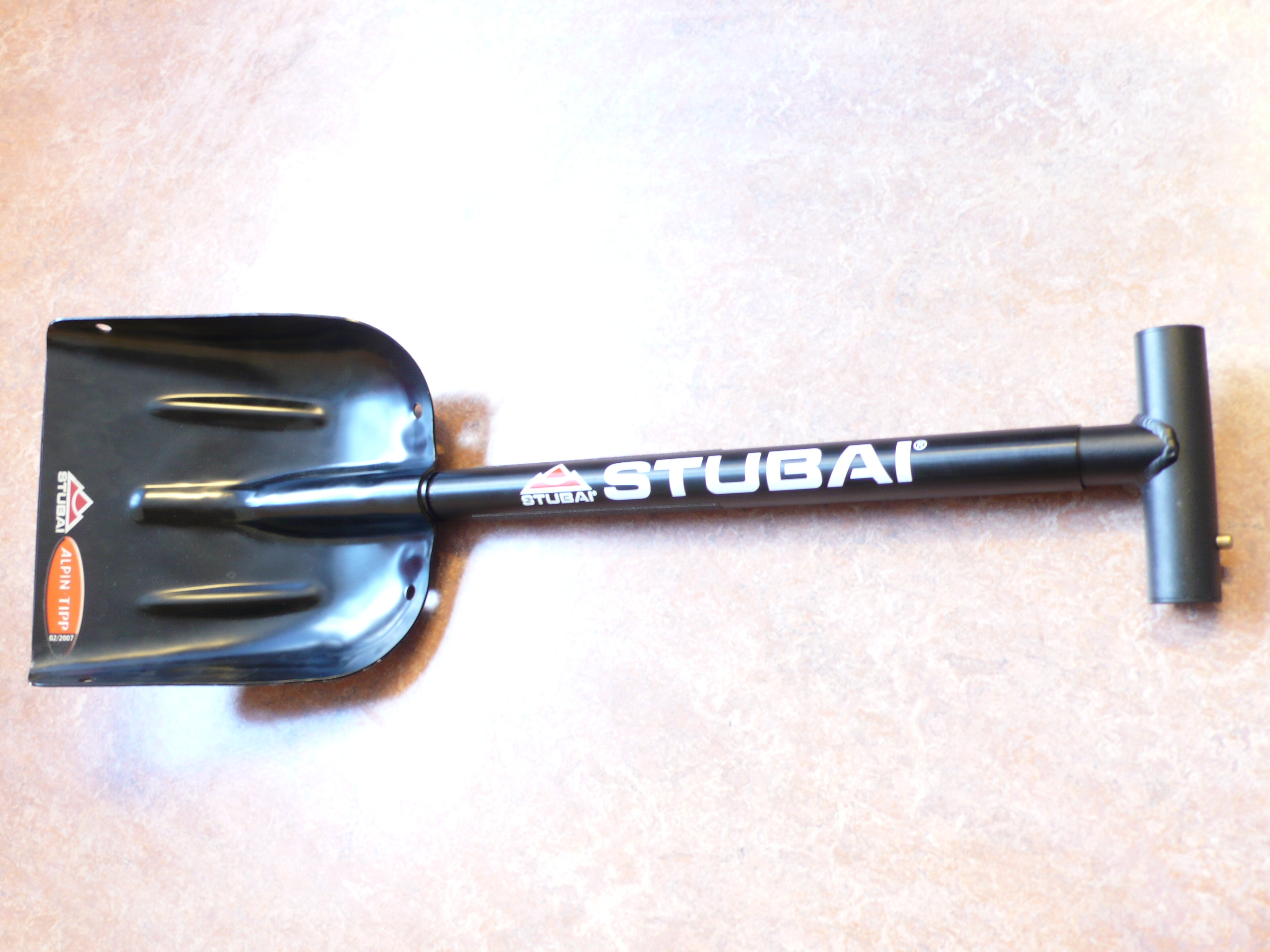 Aluminium Avalanche Shovel